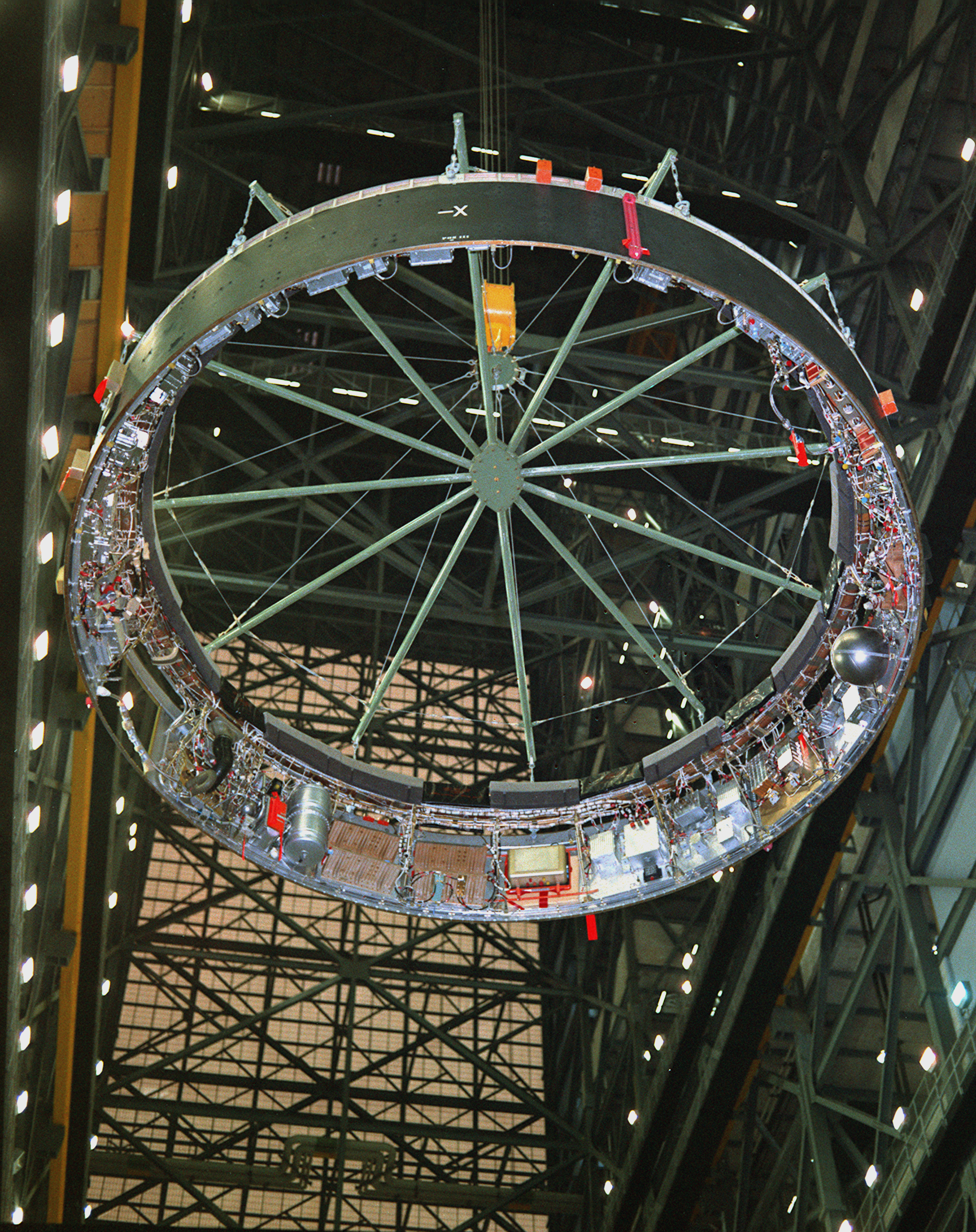 This photograph was taken during the final assembly operation of the Saturn V launch vehicle for the Apollo 4 (SA 501) mission. The instrument unit (IU) was hoisted to be mated to the S-IC/S-II assembly in the Vehicle Assembly Building high bay at the Kennedy Space Center. Note that the access door has been removed (about 8 o'clock), to allow technicians to enter the IU after it is stacked. The access door is location 8. Location 7 is to the right, with the nitrogen purge ducts (used during refueling to prevent the buildup of dangerous fumes). Location 6 has the silver cylinder that is the water accumulator. (This water sublimated to space during a mission, providing cooling for the elctronics in the IU.) To the right, at locations 5 and 4 are shelves to hold batteries. This differs from the configuration for IU-514, on display at the NASM. IU-514 has the water accumulator at location 3, to the right of the battery shelves. At the right (4 o'clock), at location 22, is the silver sphere holding the nitrogen supply for the gyro gas bearings. IU-514 also differs in having another battery shelf at location 24, two places to the left of the nitrogen sphere. Note the −X marking on the side facing us (12 o'clock), indicating that the old coordinate system was in use for this mission.